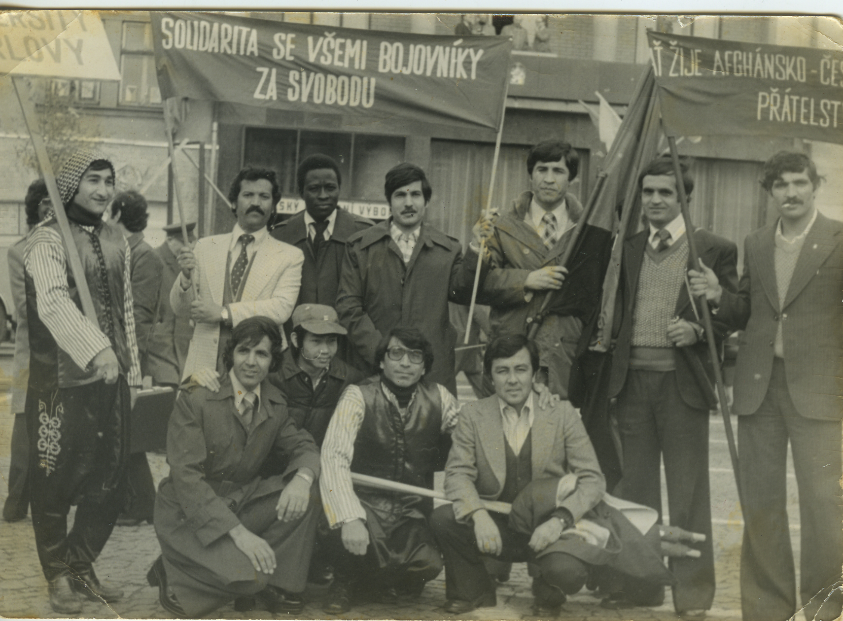 Sékou Koureissy Condé in Czechoslovakia during his law studies